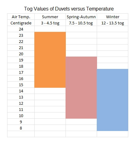 Chart showing the relationship between temperatures and tog ratings of quilts , (duvets), and their comfort categories.